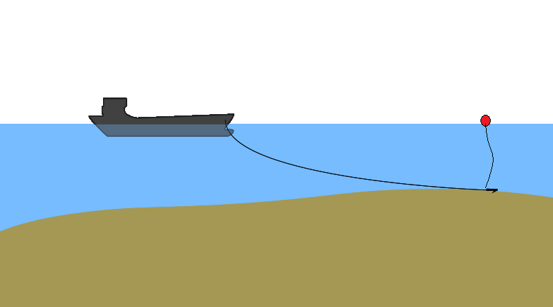 Mooring circle.